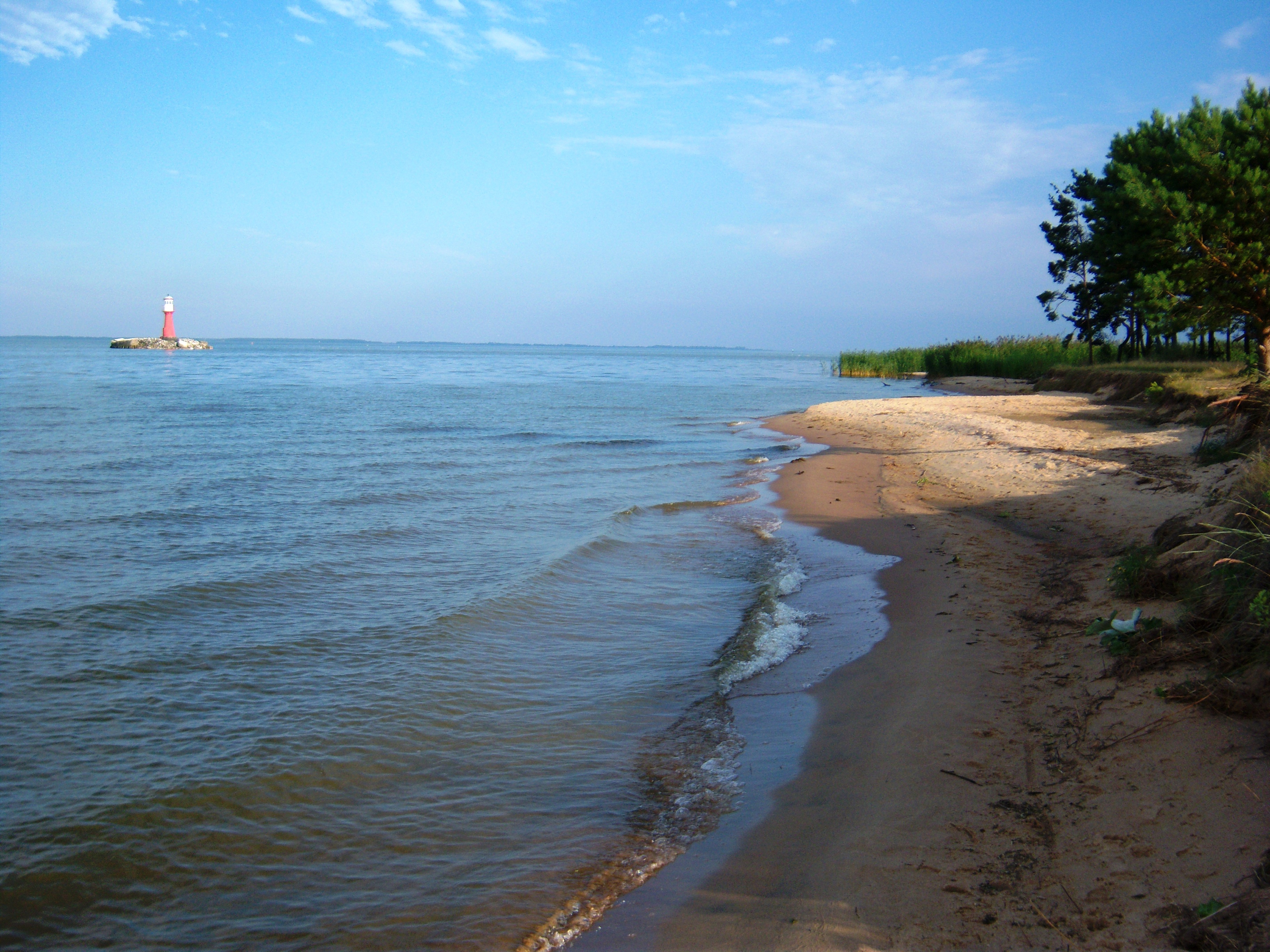 Coast of Žirgų Cape by Pervalka, Neringa, Lithuania